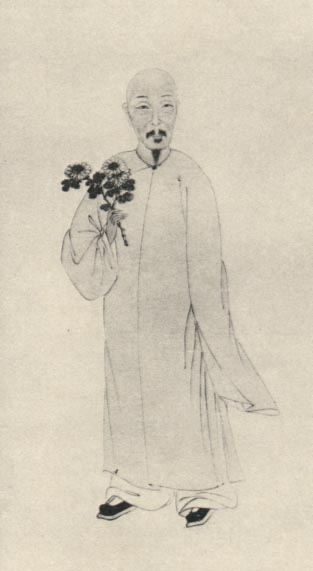 DUAN Yucai, politician and scholar of the Qing Dynasty.